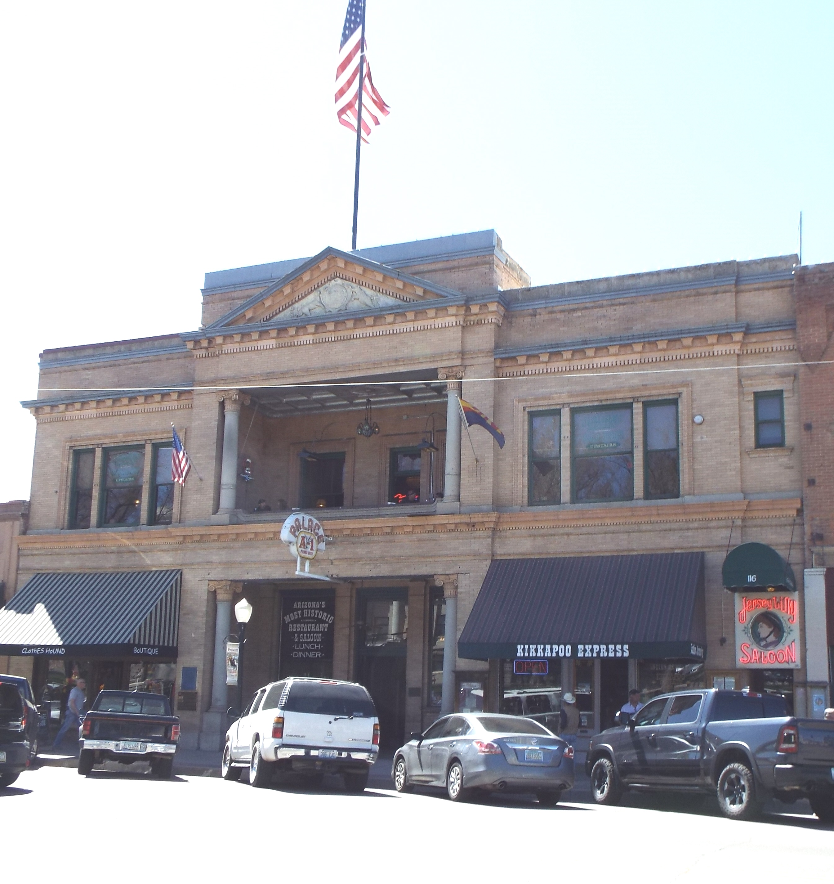 The Palace Hotel is the oldest business and oldest bar operating in the state of Arizona, United States. Originally built in 1877